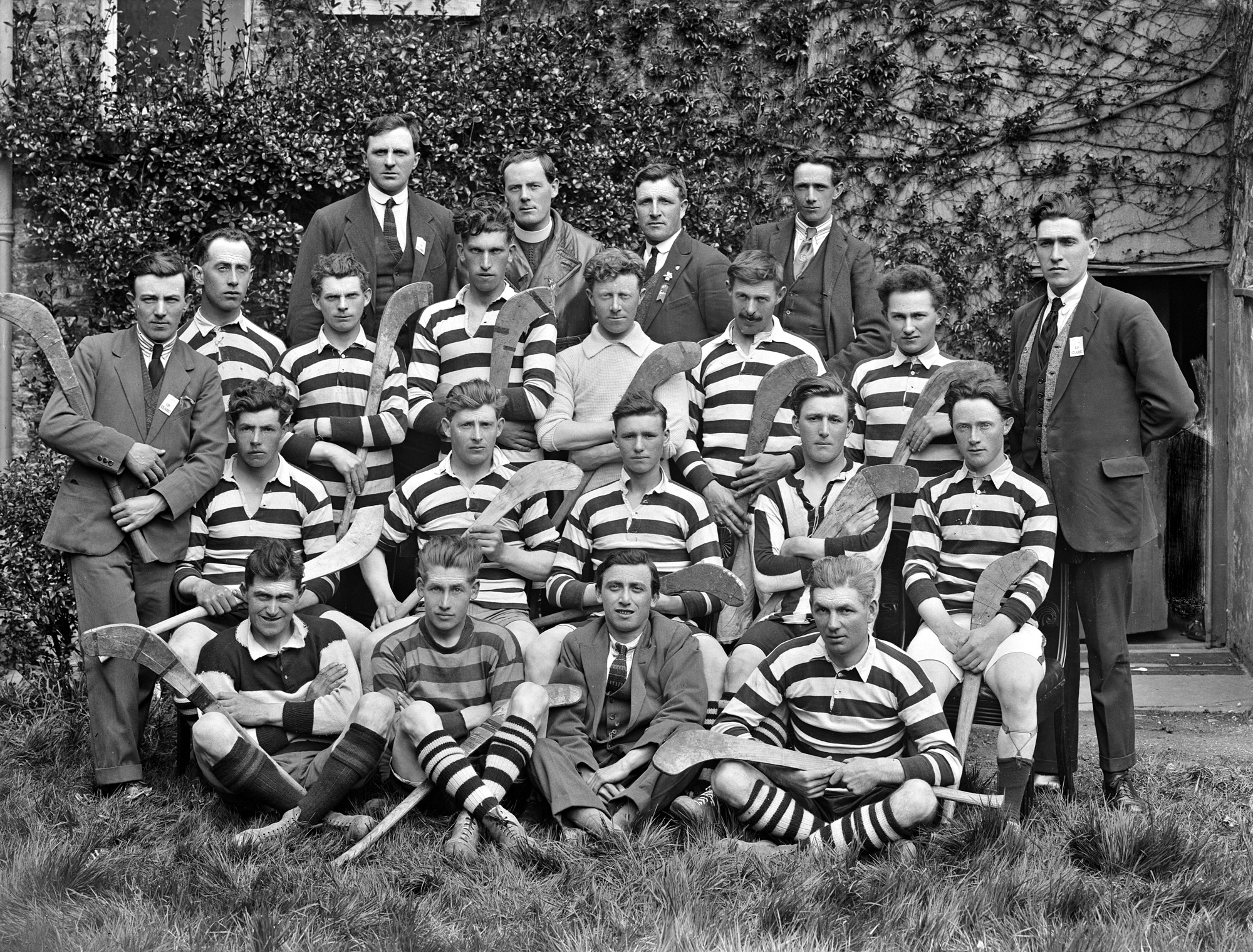 Photograph taken between ca. 1884 and 1945. Format: glass negative Part of: National Library of Ireland Poole Collection Reference number: P_WP_3270